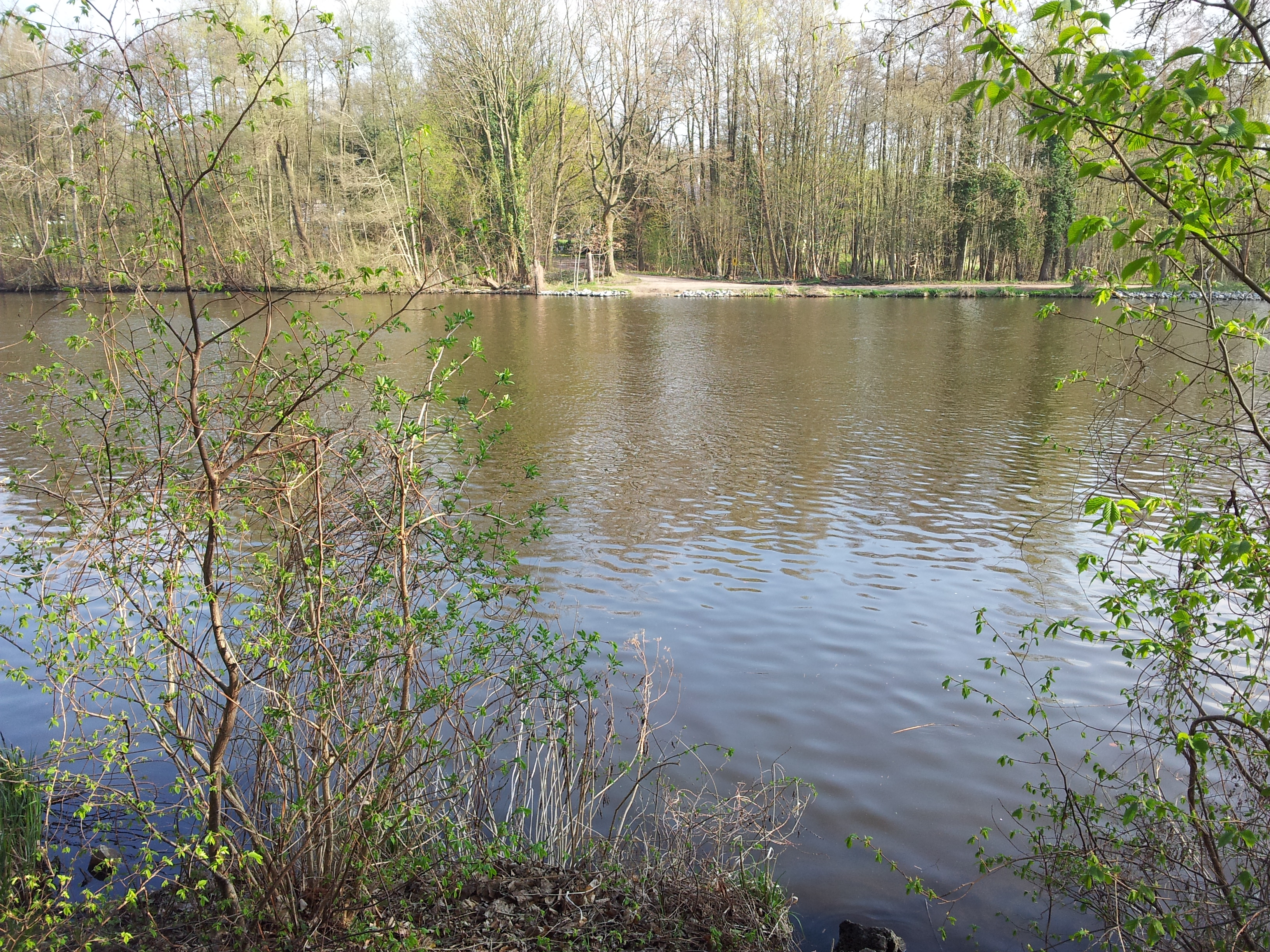 Site where Nordahl Grieg's Lancaster bomber crashed into Machnower See, Kleinmachnow, Germany.